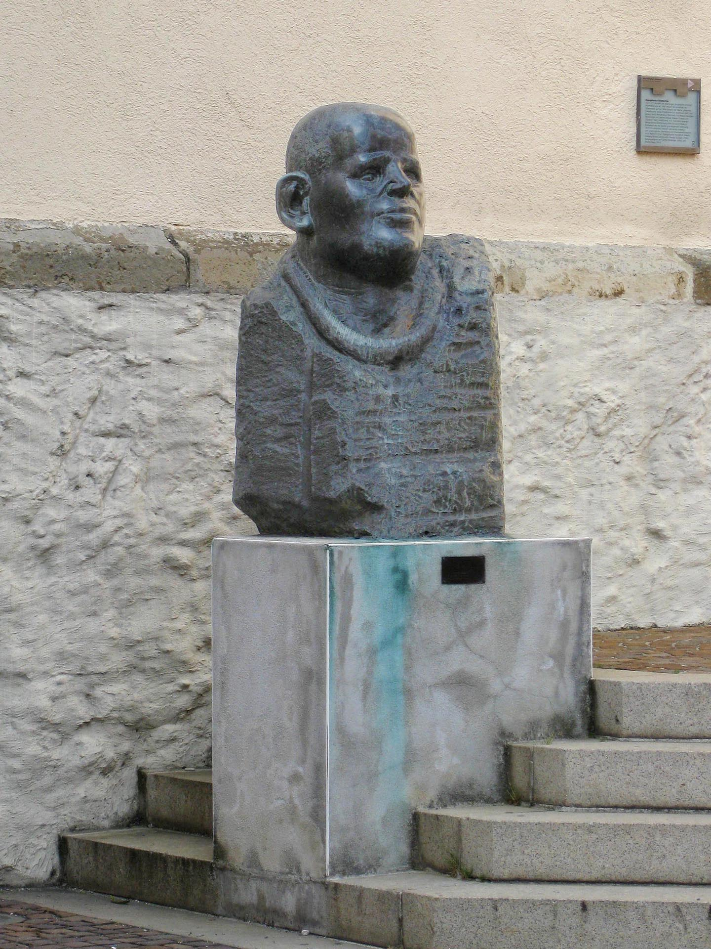 Alfred Hrdlicka, Portrait of Dietrich Bonhoeffer, 1977, (cast-bronze after marble) - Germany, Baden-Württemberg, Bietigheim-Bissingen, at a side entrance of the Stadtkirche